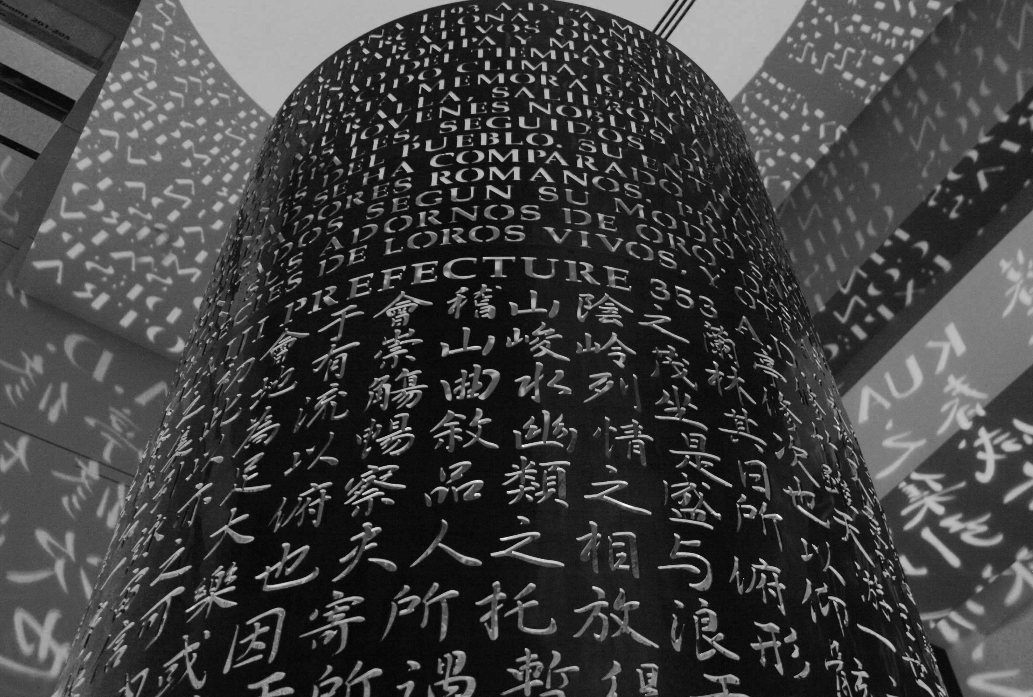 This one of two art pieces are located in the registration area of the Walter E. Washington Convention Center is titled ”Lingua” by Jim Sanborn. Lingua in Latin means “spoken word.” The two columns represent in eight languages words and phrases recalling historic gathering or conventions of people from 1400BC until the 19th century. Sanborn also created similar works that sit in the courtyard of the CIA headquarters with a code that has yet to be fully broken by the agents there, Sanborn is also an archeologist and this is reflected. His artwork always contain some element of archeology, the physical sciences, mythology and the unseen forces of nature. Source: WEWCC Promotional Brochure